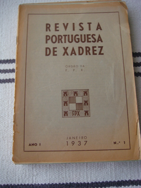 First edition of Revista Portuguesa de Xadrez